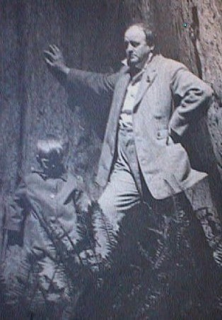 Beverly L Hodghead and son Beverly E Hodghead